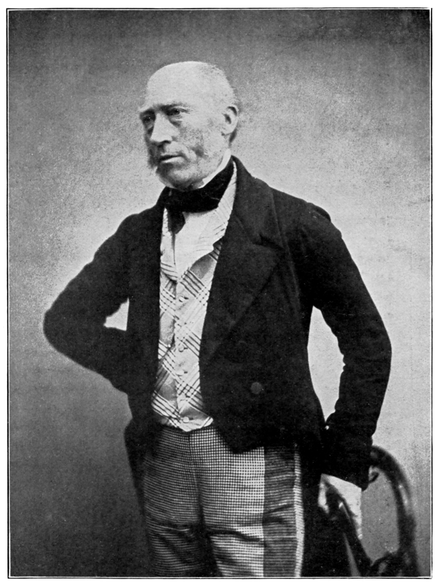 Picture of John Phillips (1800 - 1874), the geologist